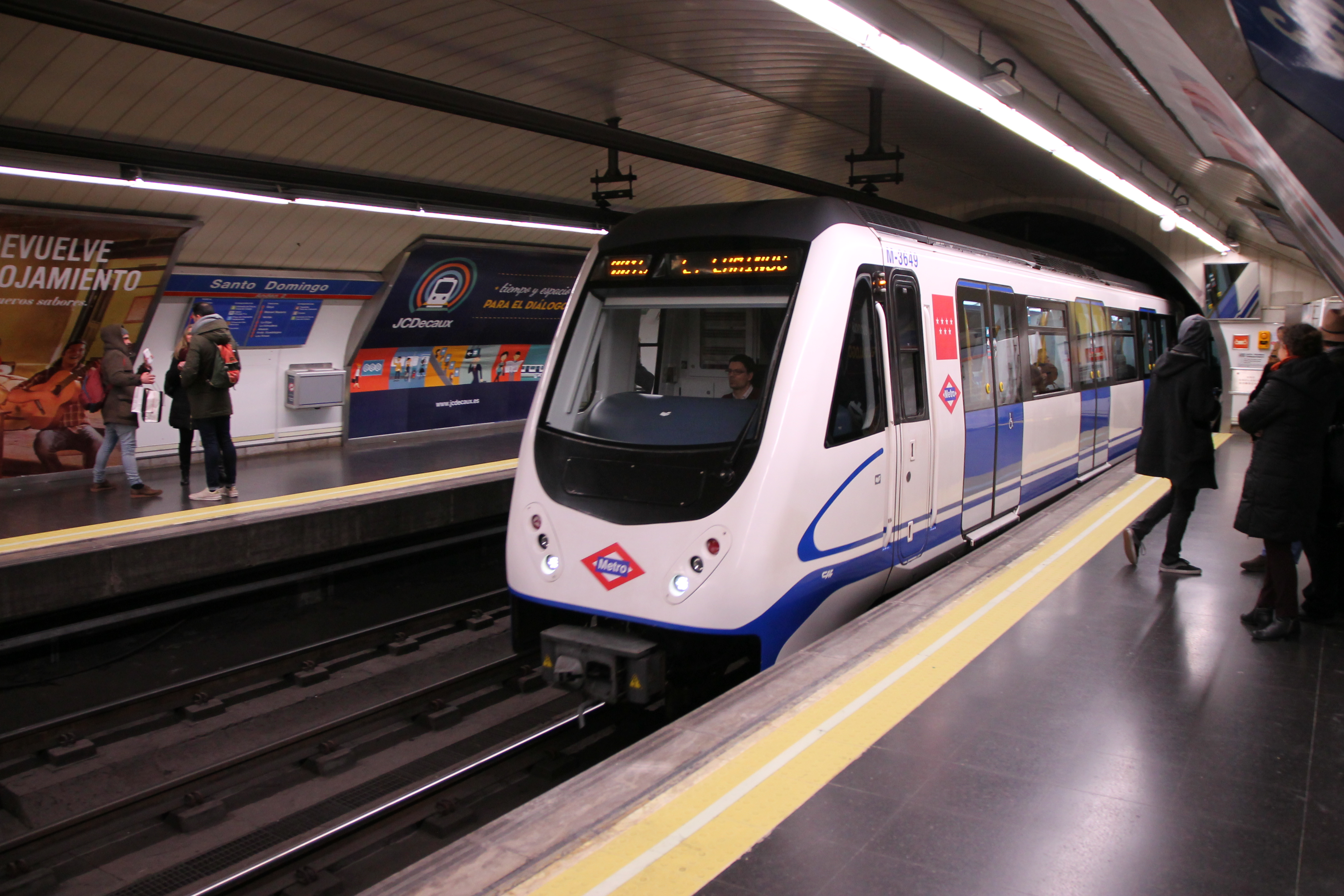 Train class 3000 in the station of Santo Domingo, Madrid Metro